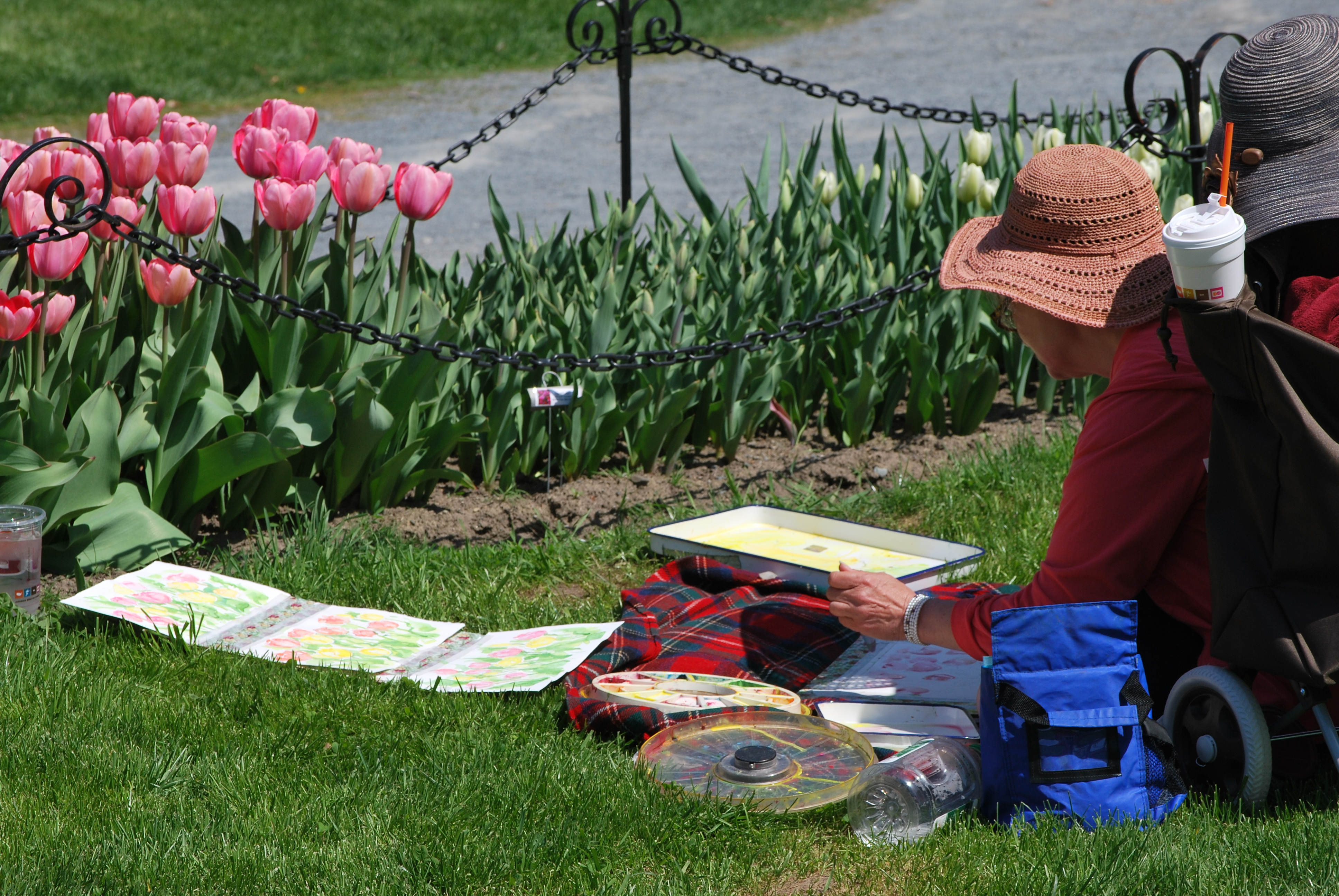 An artist paints tulips in watercolor during the Tulip Fest in Washington Park in Albany, New York, United States